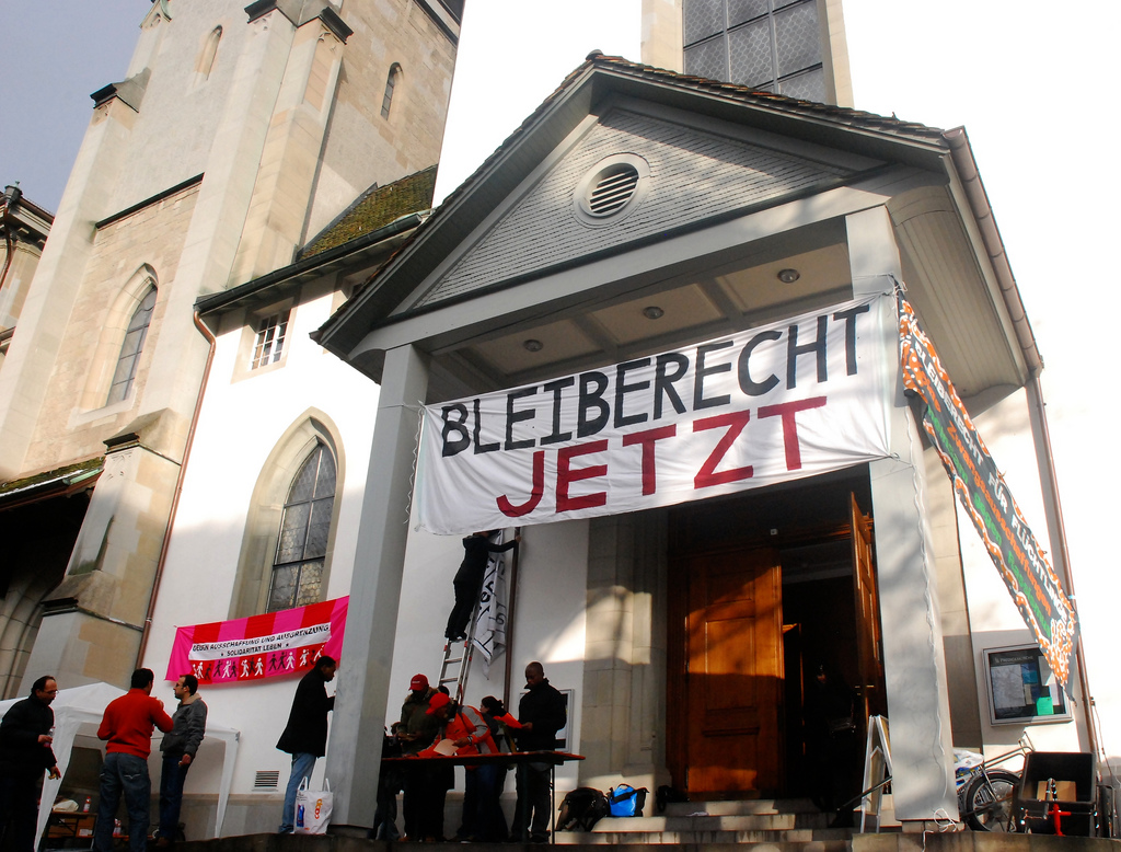 Picture of Predigerkirche in the centre of Zurich occupied by Sans-Papiers, December 2008